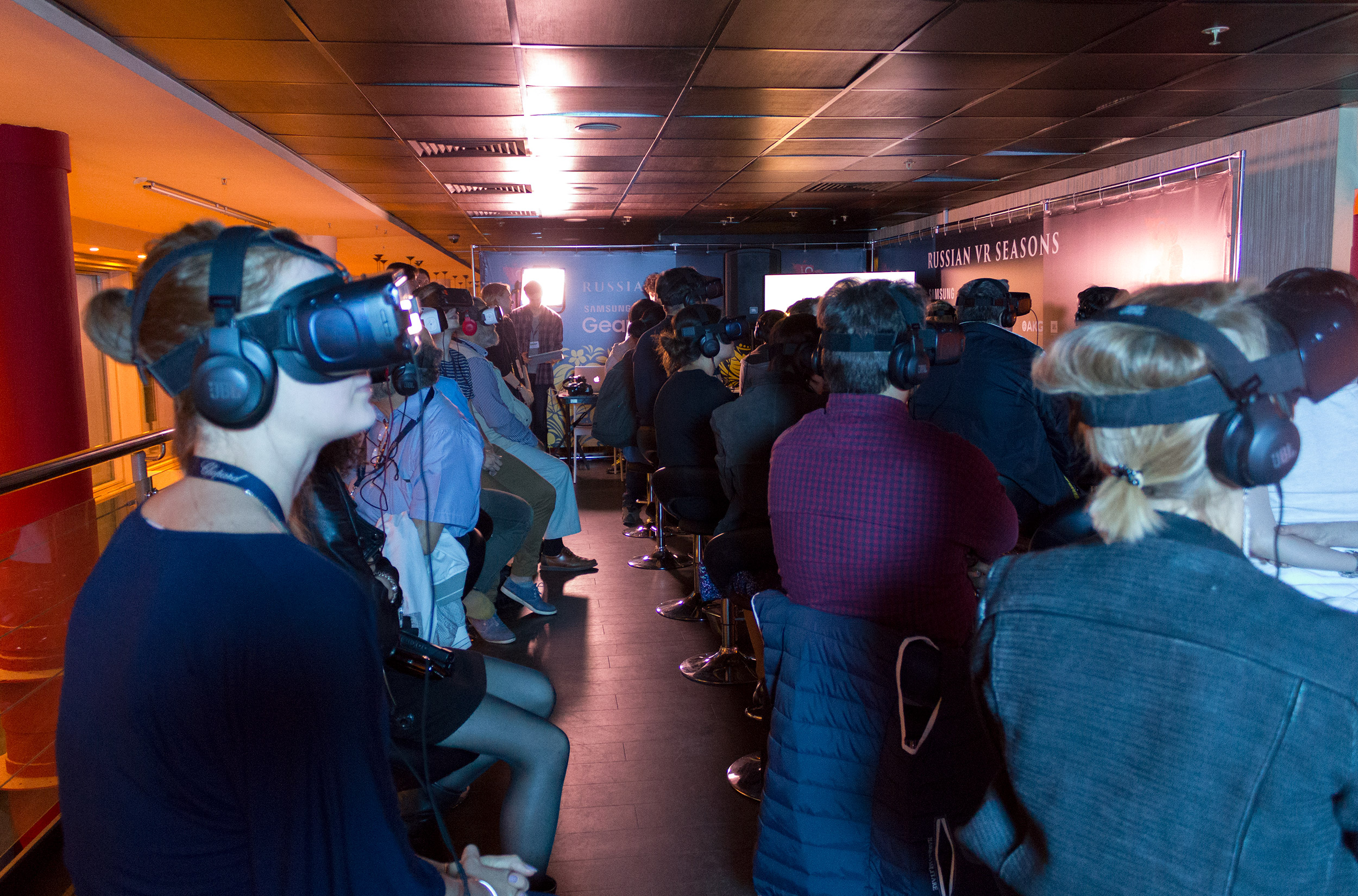 Demonstrations of the Russian VR Seasons section at 39 Moscow IFF